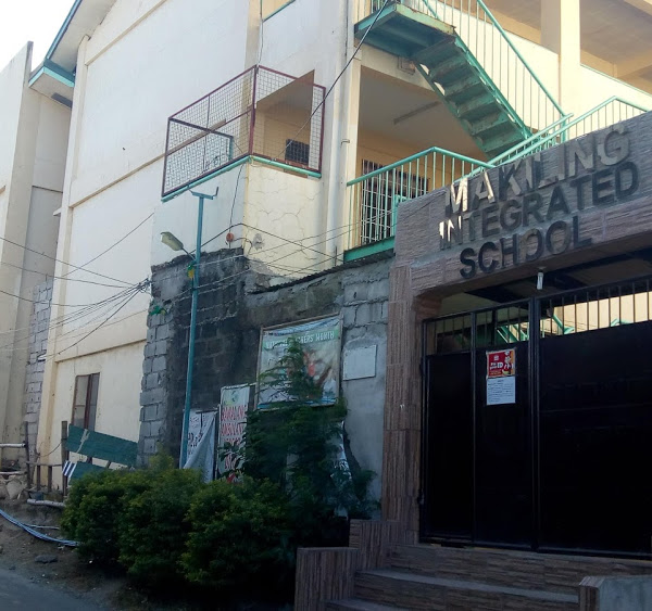 Makiling Integrated School Gate